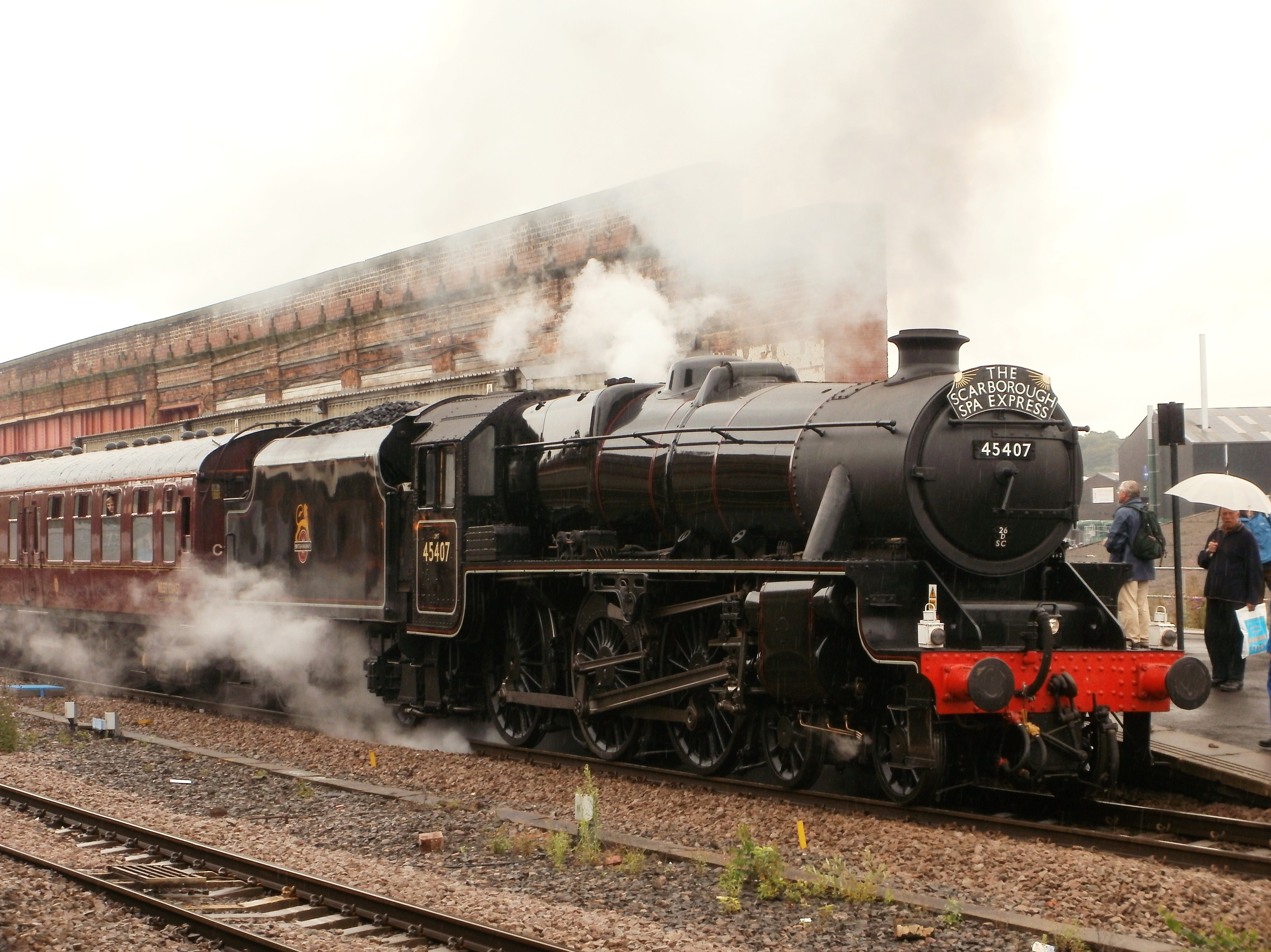 45407 The Lancashire Fusilier at Wakefield Kirkgate Station operating on the Scarborough Spa Express